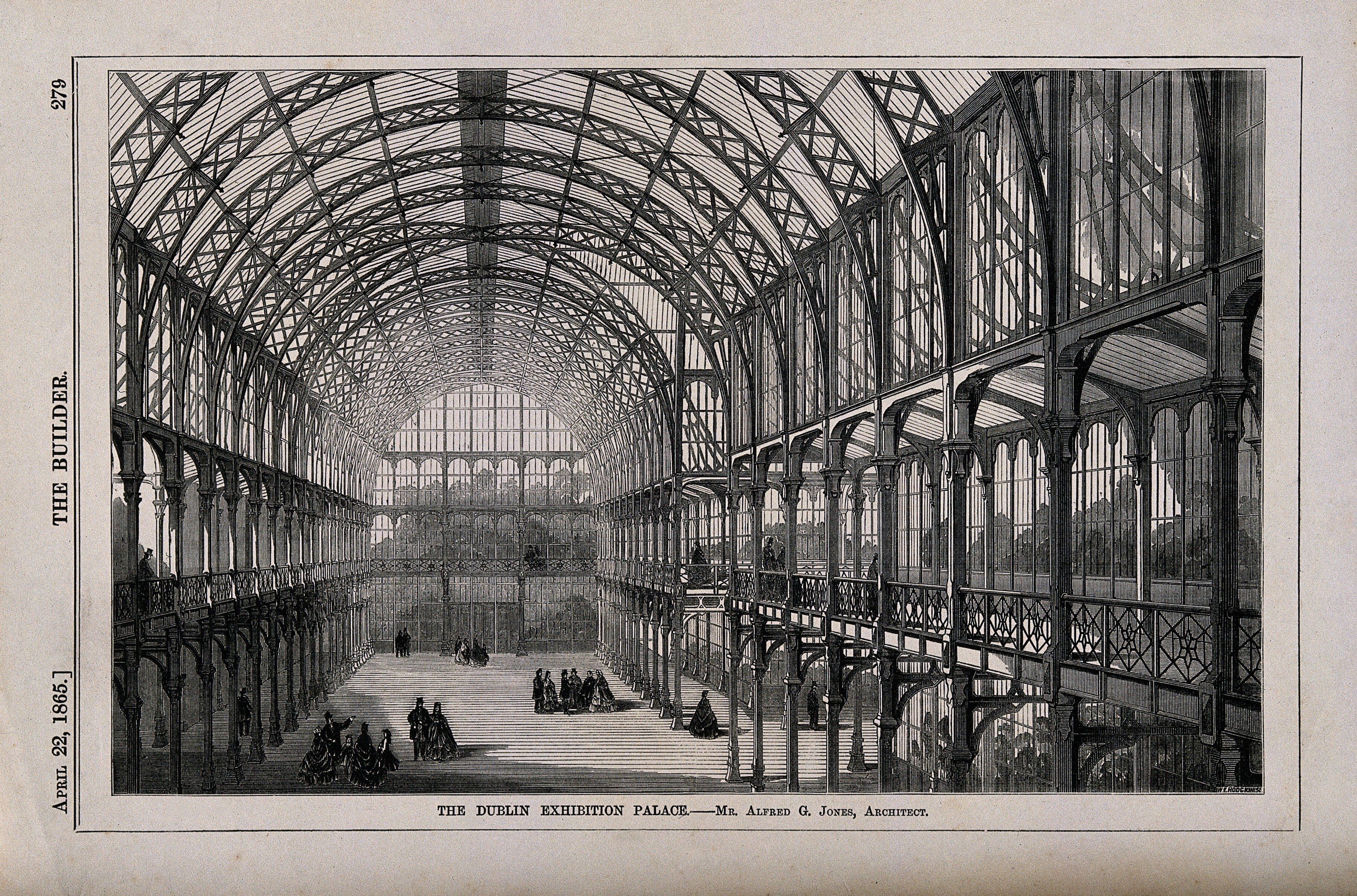 The interior of the Dublin Exhibition Palace, Ireland. Wood engraving by W.E. Hodgkin, 1865, after A.G. Jones. Iconographic Collections Keywords: W. E. Hodgkin; Alfred G. Jones